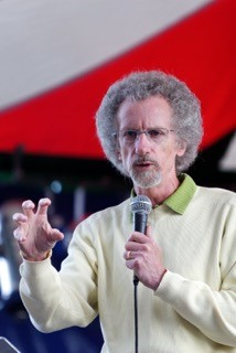 Philip Yancey speaking at the Greenbelt Festival at Cheltenham Racecourse in England on August 24, 2008